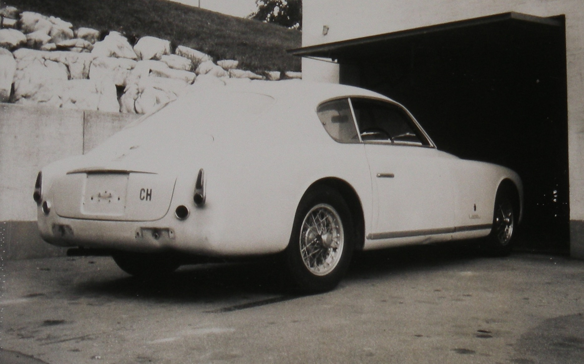 Ferrari 195 Inter No. 133